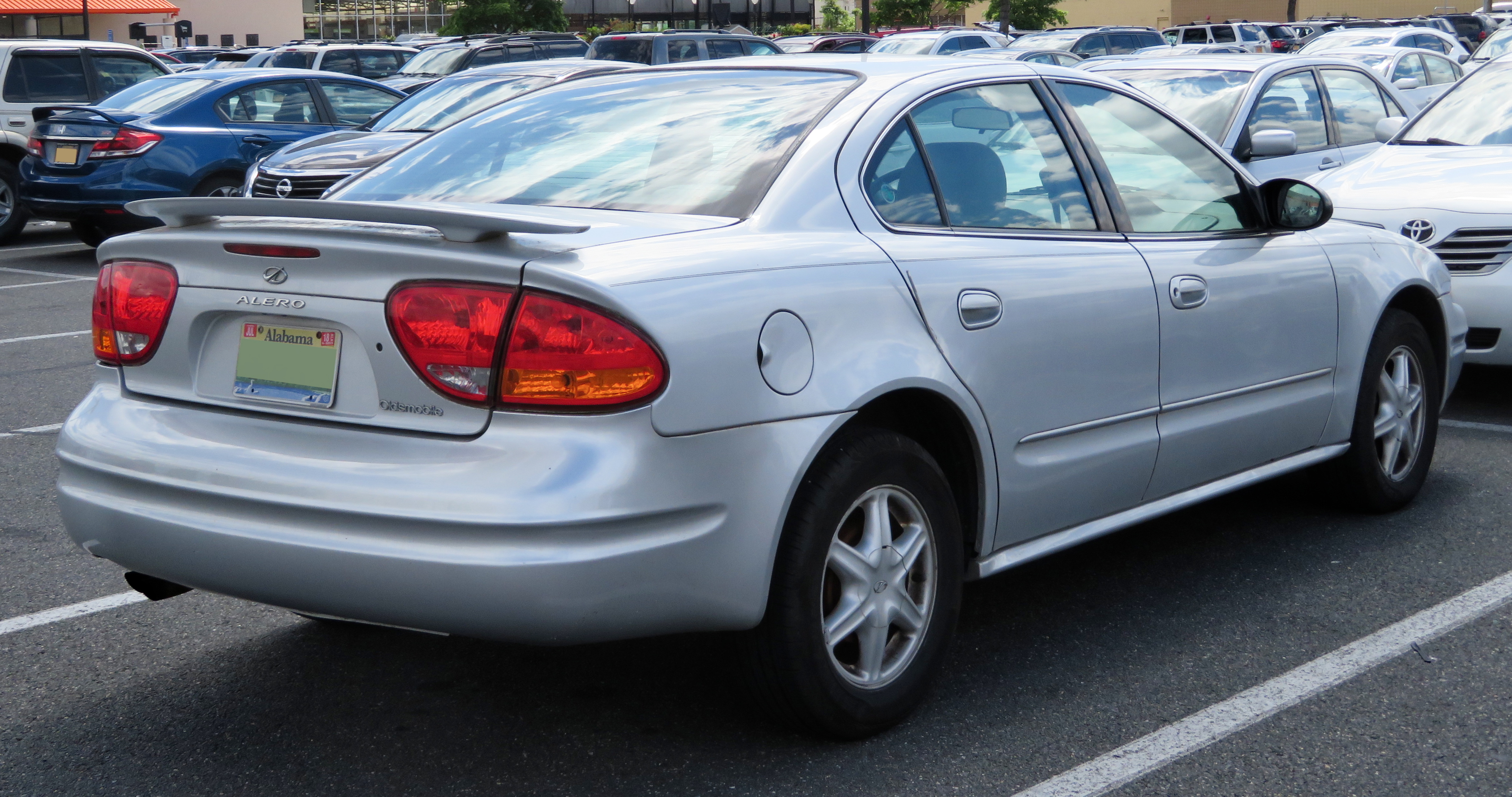 Photographed in Long Island, New York